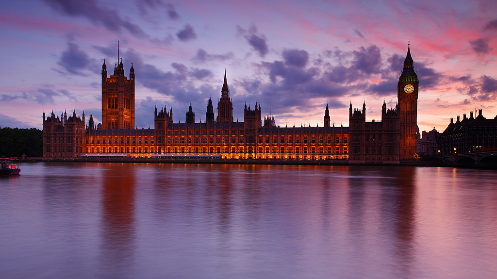 With a little drama and colour in sky. Canon 5d 24-70 @ 27mm Lee GND 0.9 + 0.75 soft grads Slik Sprint Pro 2 tripod